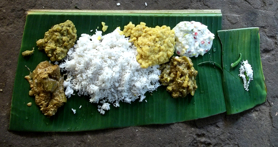 Abadha, the afternoon prasada offered to Lord Jagannatha in Jagannatha Temple, Puri, Odisha (Orissa). This media file is uploaded with Odia loves Wikipedia ଓଡ଼ିଆ: ଅବଢ଼ା ପ୍ରସାଦ ପୁରୀ ତଥା ବାକି ସ୍ଥାନମାନଙ୍କରେ ପୂଜିତ ଜଗନ୍ନାଥଙ୍କ ନିକଟରେ ଭୋଗ ଦିଆଯାଉଥିବା ପ୍ରସାଦକୁ ବୁଝାଇଥାଏ ।